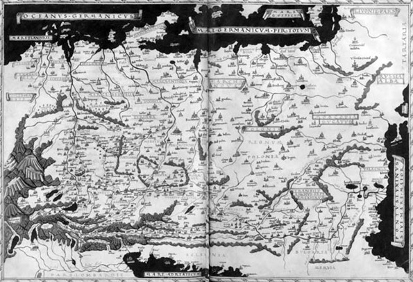 Map of Central Europa of Nikolas Cusa